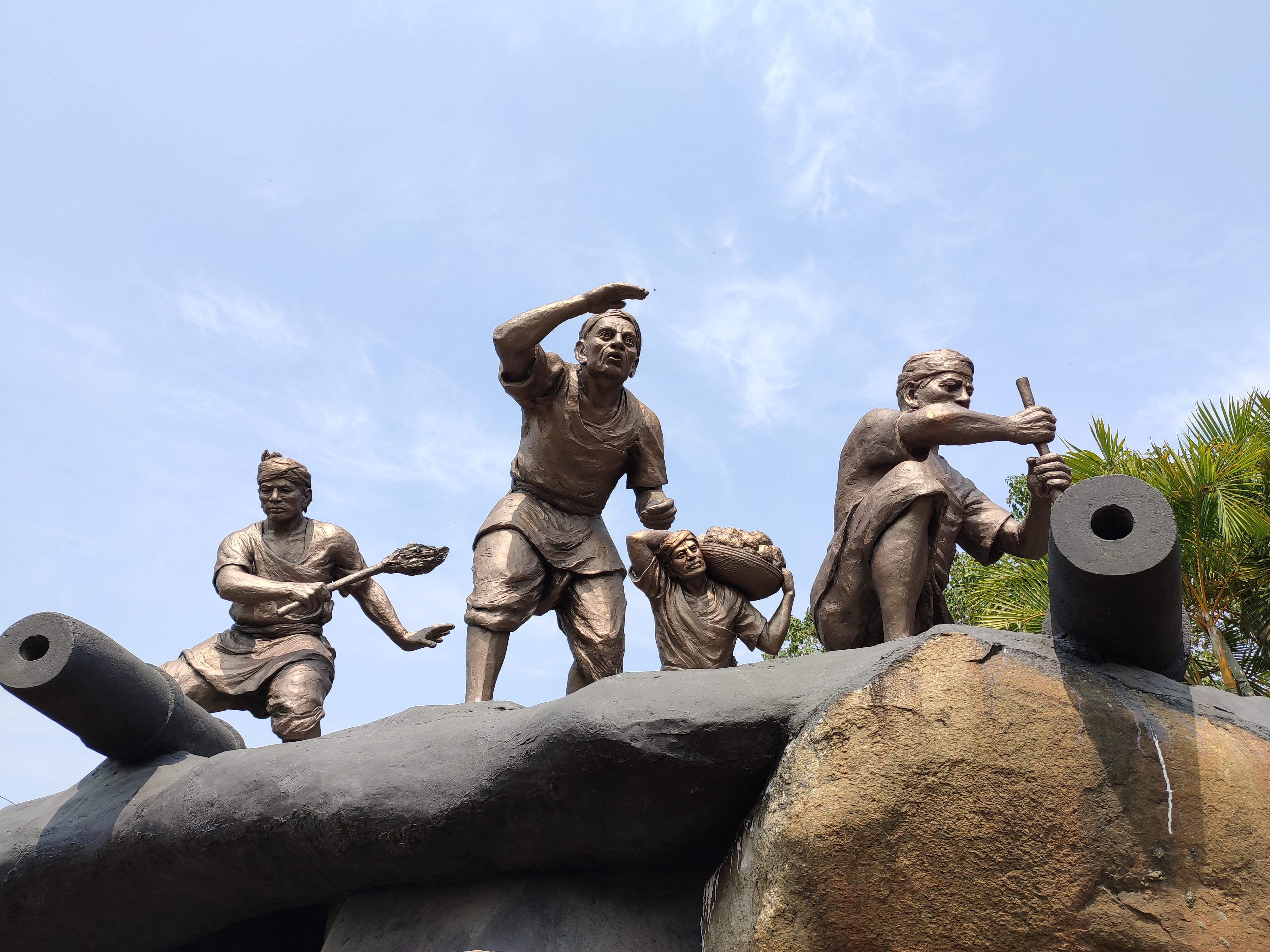 Statues of Ahom warriors at Saraighat war memorial park, Amingaon, North Guwahati